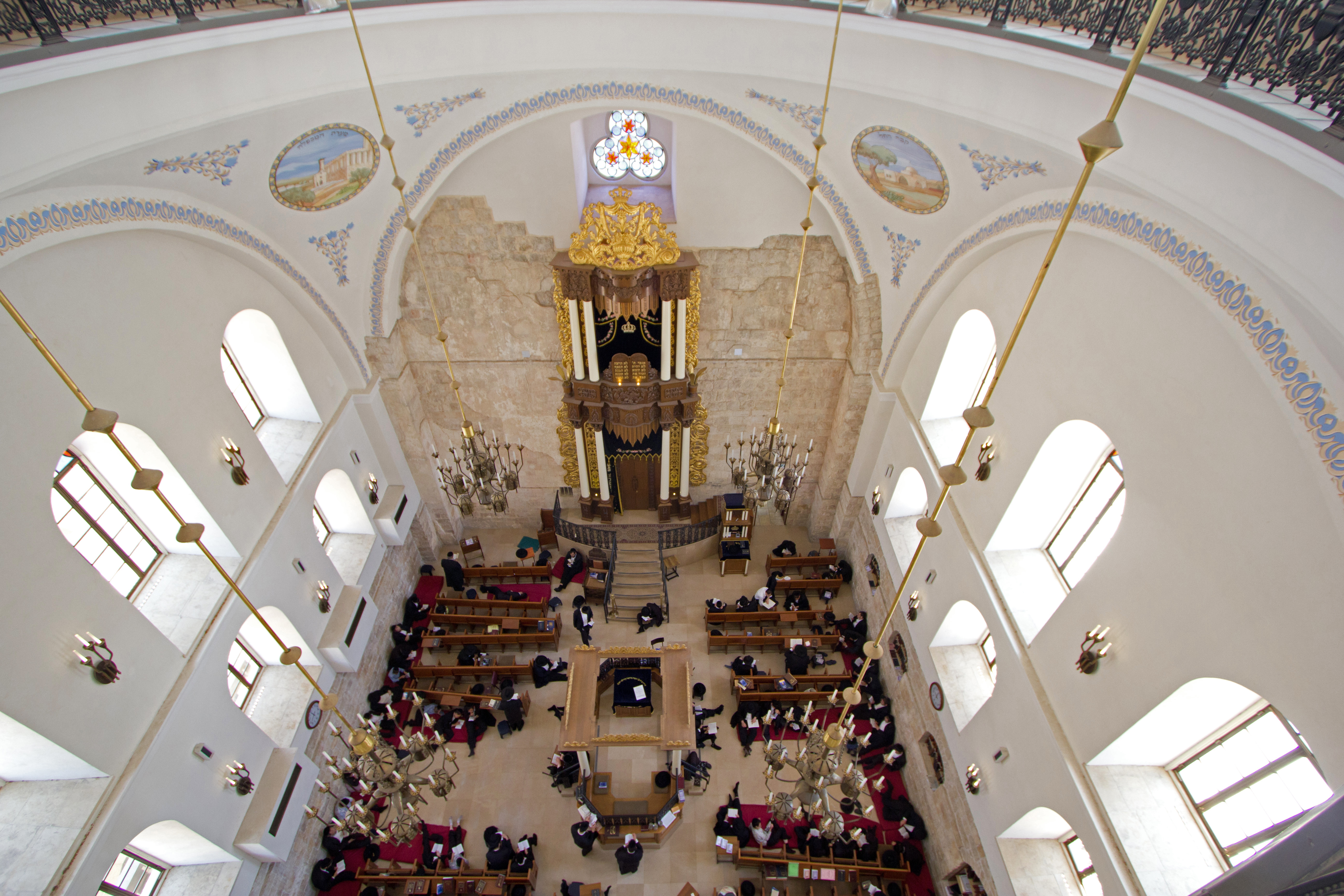 Interior of the Hurva Synagogue in the Old City of Jerusalem, Israel